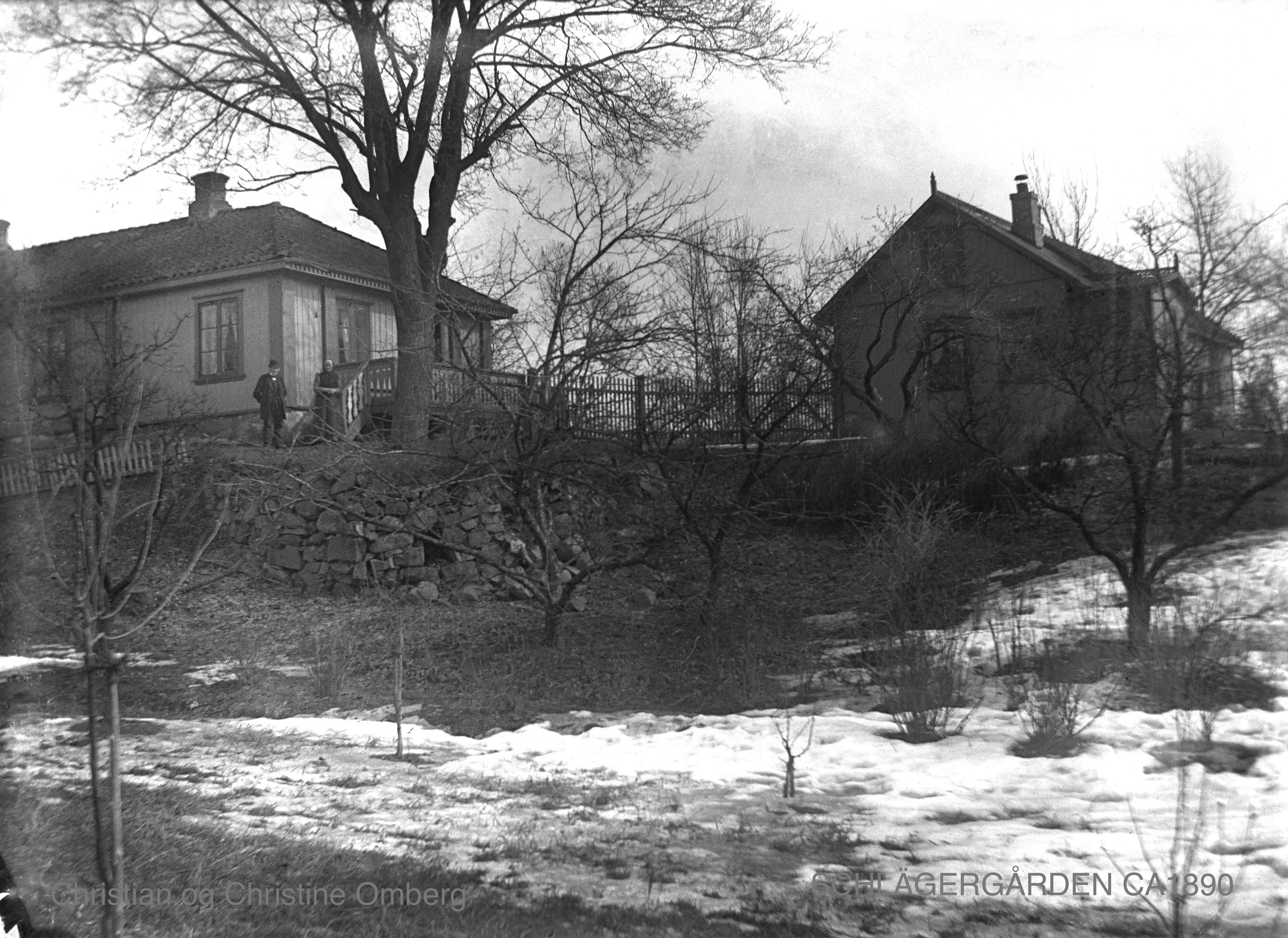 Dette er tatt på baksiden av gåprden, hvor det var frukthave.